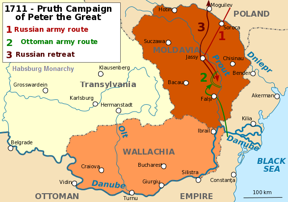 png corrected version of File:Prut pohod in 1711-en.svg (Habsburg Monarchy instead of Austro-Hungarian Empire, which appeared as late as 1867)